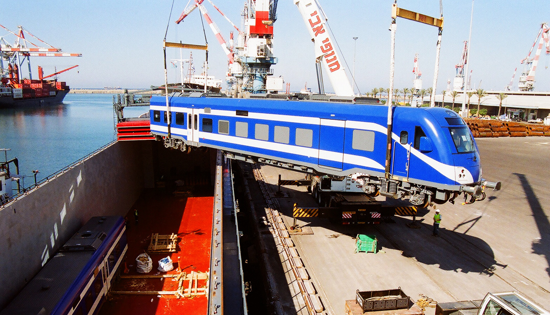 Israel Railways' Siemens Viaggio Light being unloaded in Israel. Photograph taken, scanned, and released into public domain by Evyatar Reiter. Shot using AGFA Ultra 50 ASA film.